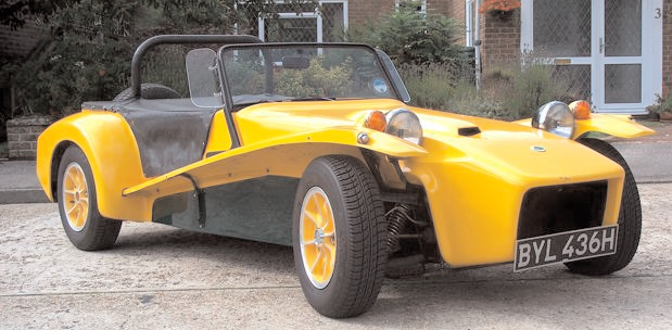 The second Lotus Series 4 ever built, and believed to be the oldest still running.